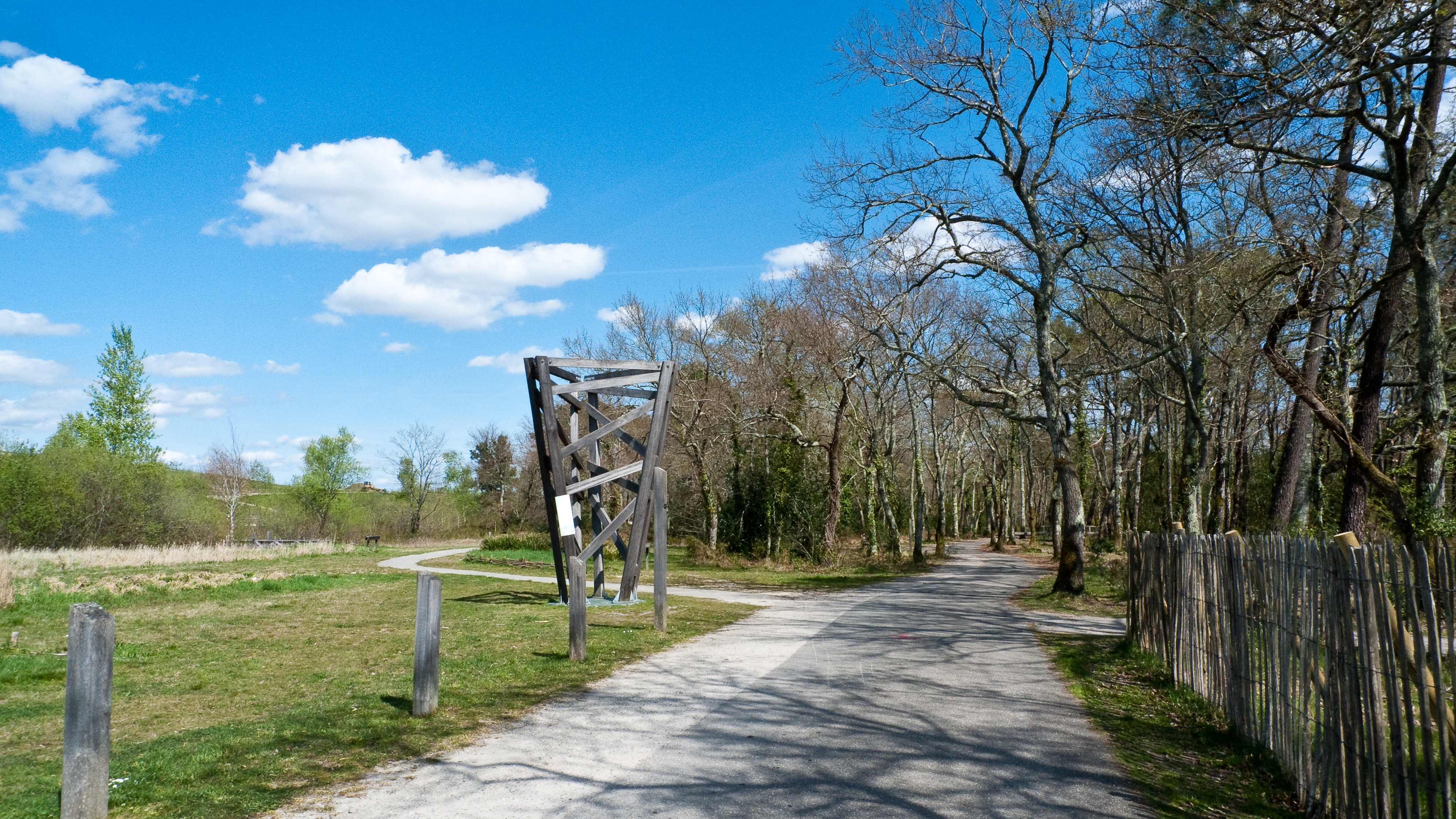 Bourgailh Park, Pessac, France